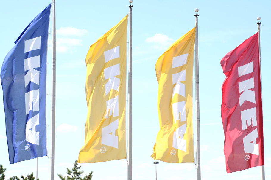 IKEA flags at the store in Pittsburgh, Pennsylvania